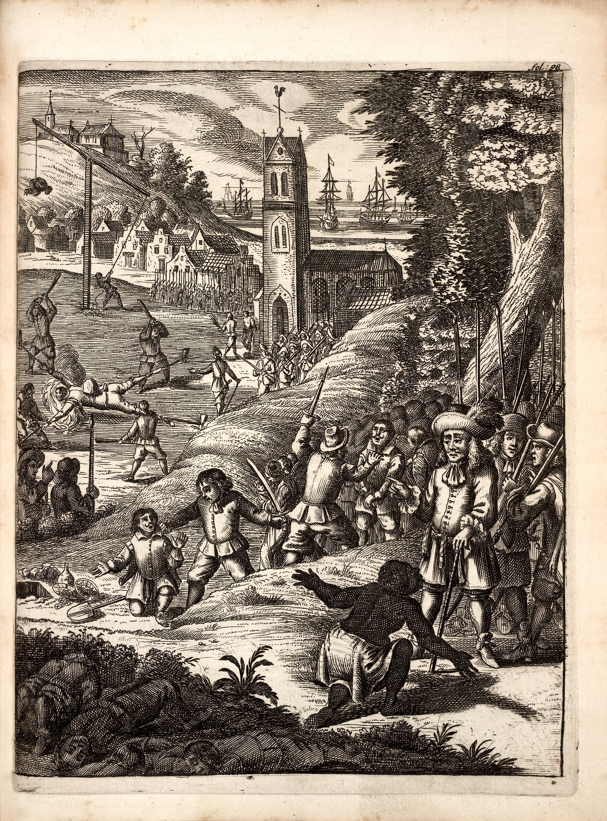 Page number 21 of The Buccaneers of America